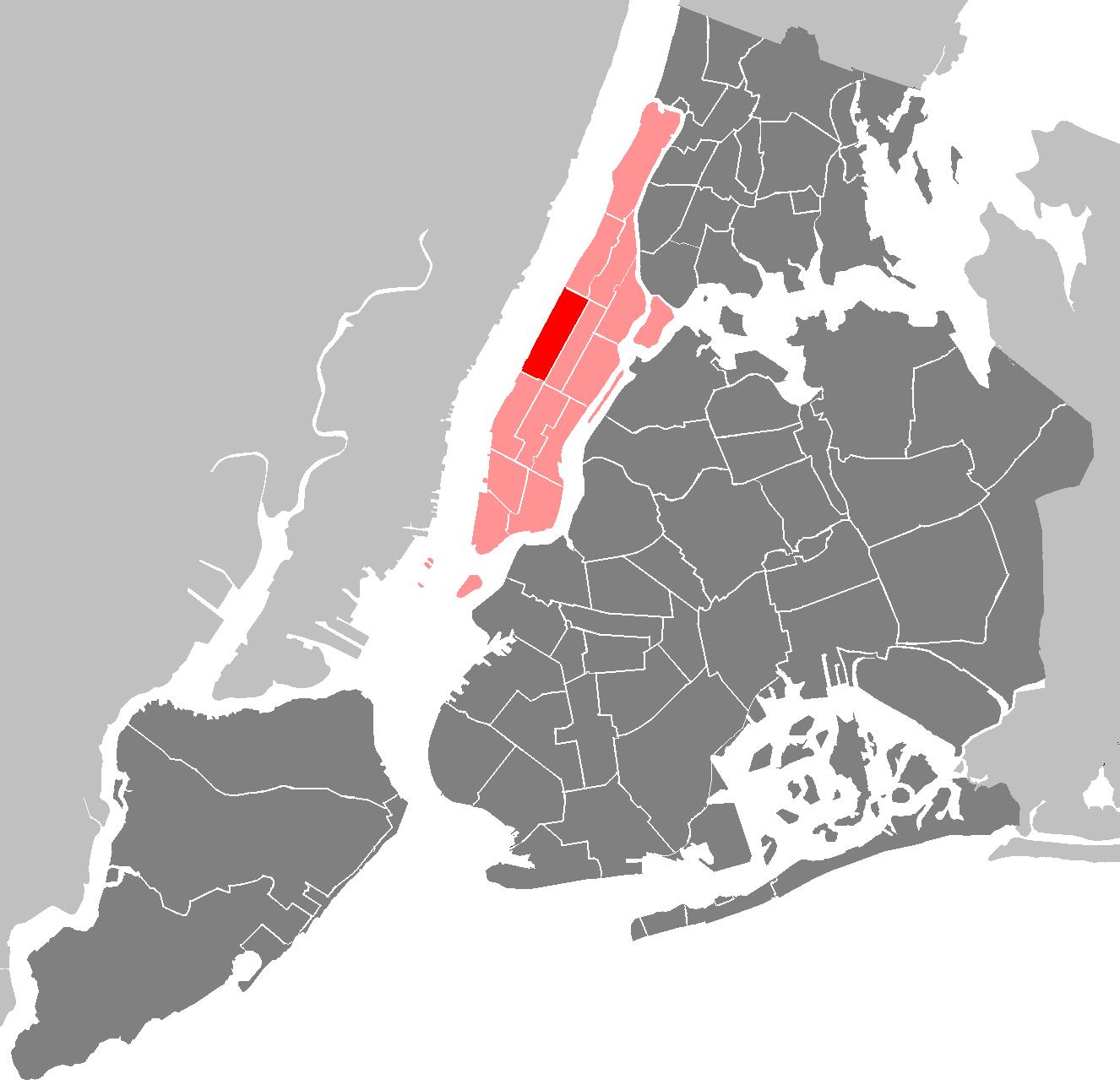 Category:Maps of New York City: New York City - Manhattan - Community Board 7.PNG